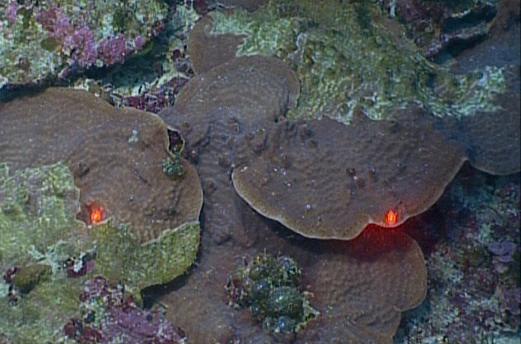 A view of the screen image from a remotely operated vehicle (ROV) of plate corals, Agaricia sp., on Pulley Ridge at 68 meters. The red dots are lasers from the ROV with a known distance that allow scientists to estimate the size of organisms. Photo Credit: John Reed using the University of Connecticut’s Kraken ROV.